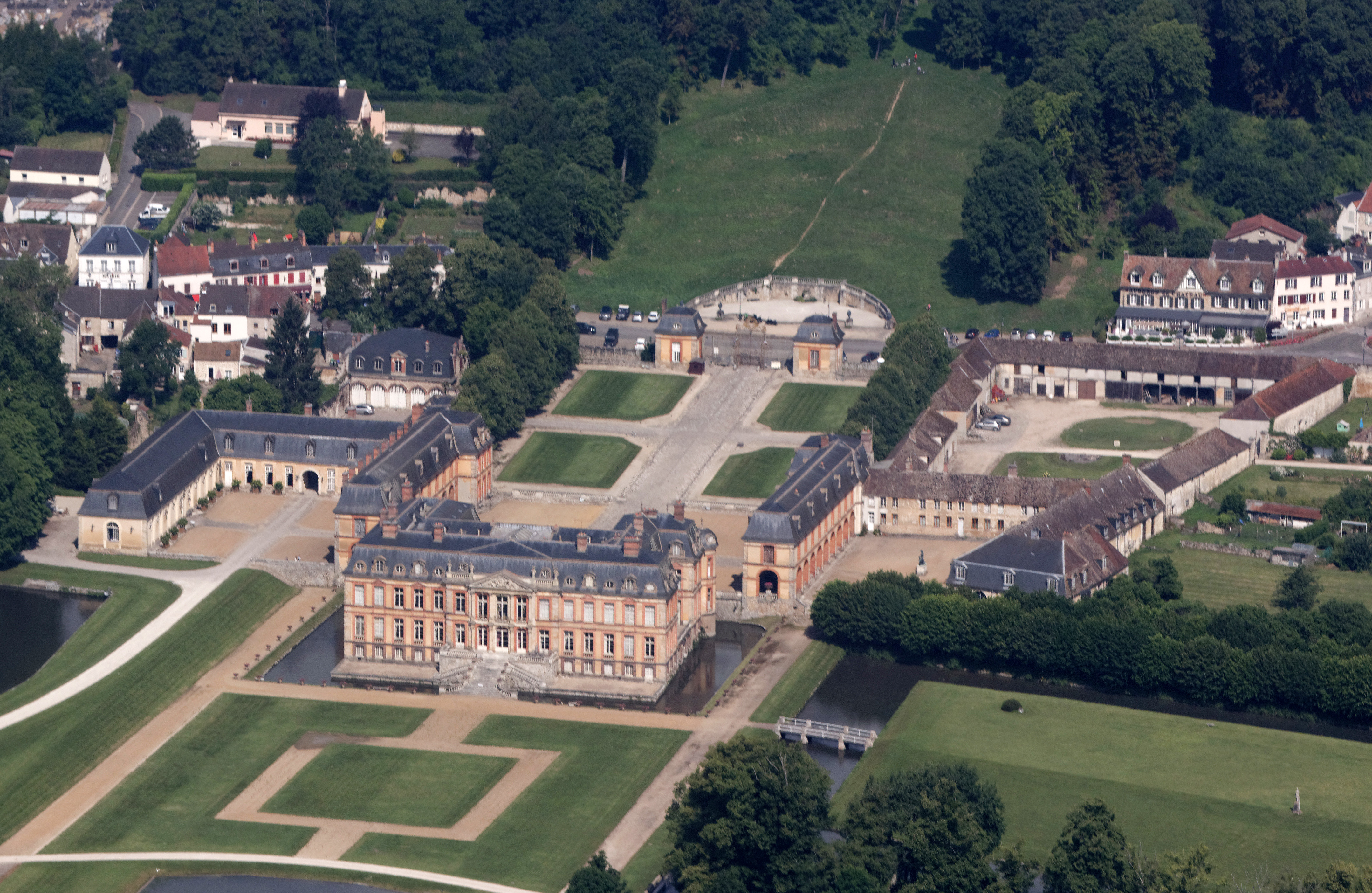 Aerial view of the Château de Dampierre, Yvelines, France